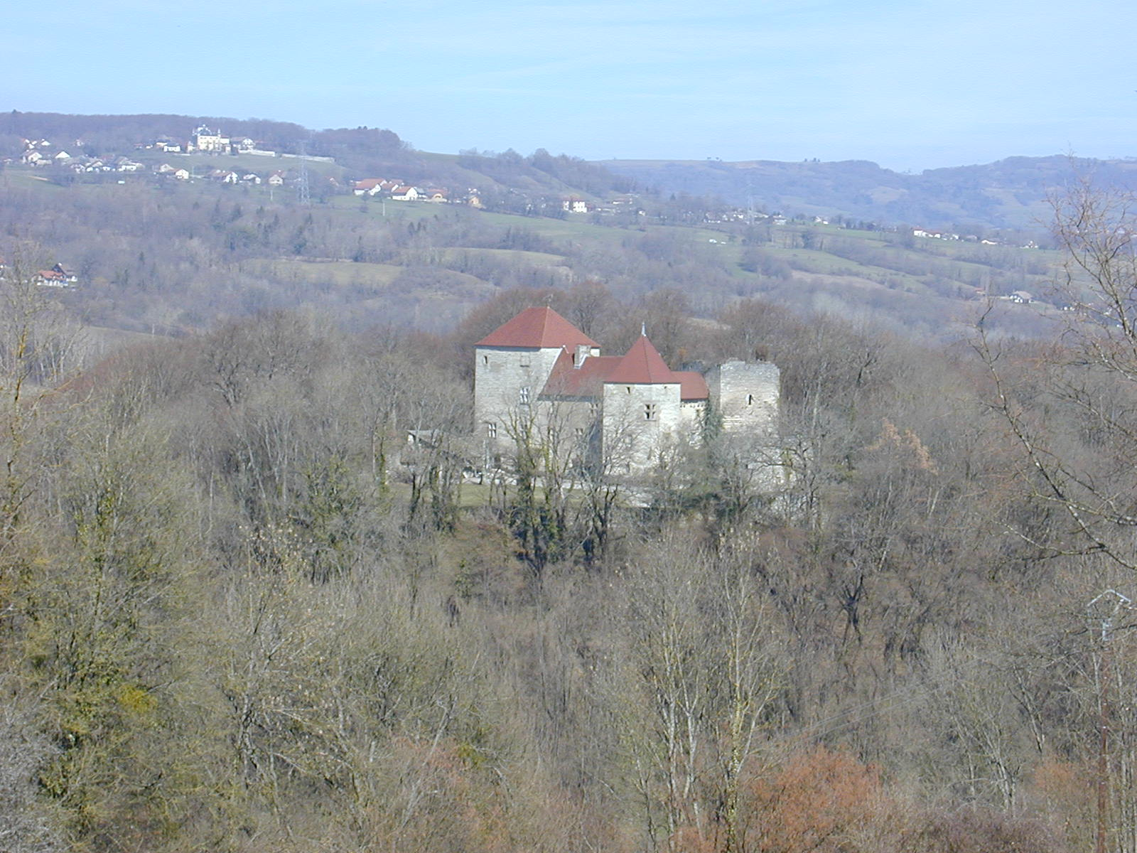 Castle of Sallenôves (Haute-Savoie, France)